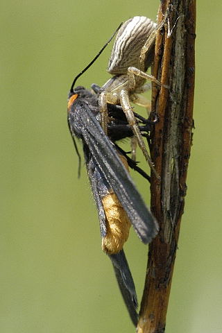 Xysticus cristatus with prey, from Commanster, Belgian High Ardennes . Wikispecies has an entry on: Xysticus cristatus